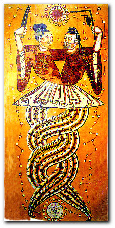 Fuxi and Nüwa. Hanging scroll. Color on silk. Length 220 cm, Top Width 106 cm, Bottom Width 81 cm. This picture is retouched to straighten the sides. Located at the Xinjiang Uighur Autonomous Region Museum. Nüwa is on the left. Fuxi is her brother.